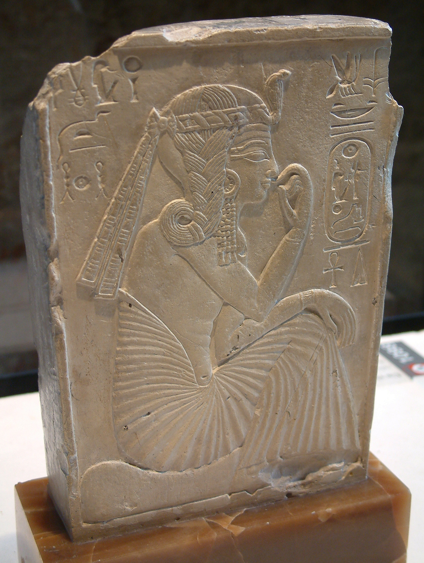 Ramesses II as a child. Verso shows a vizir (possibly Paser) before Ptah. Limestone